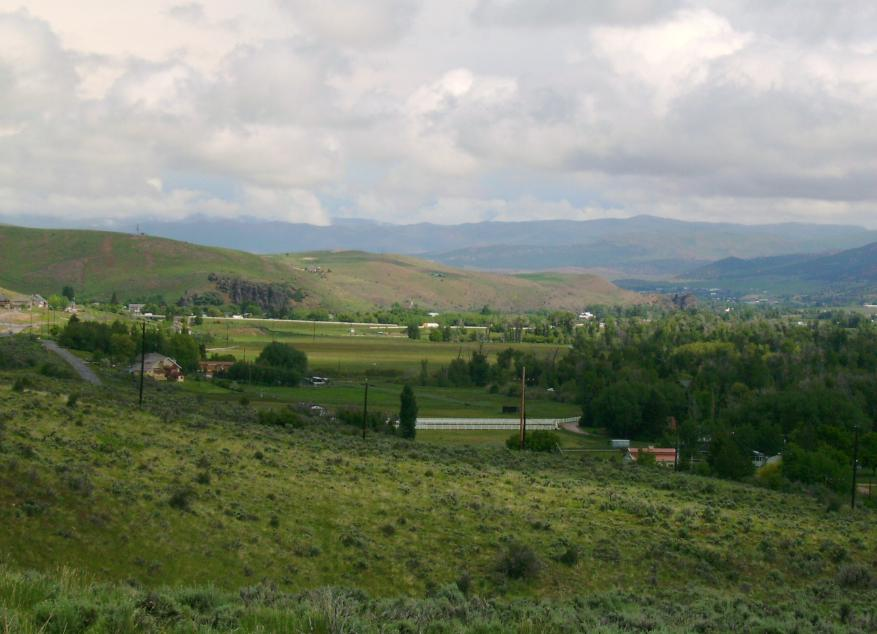 Wanship Valley in Utah, taken from Rockport Reservoir